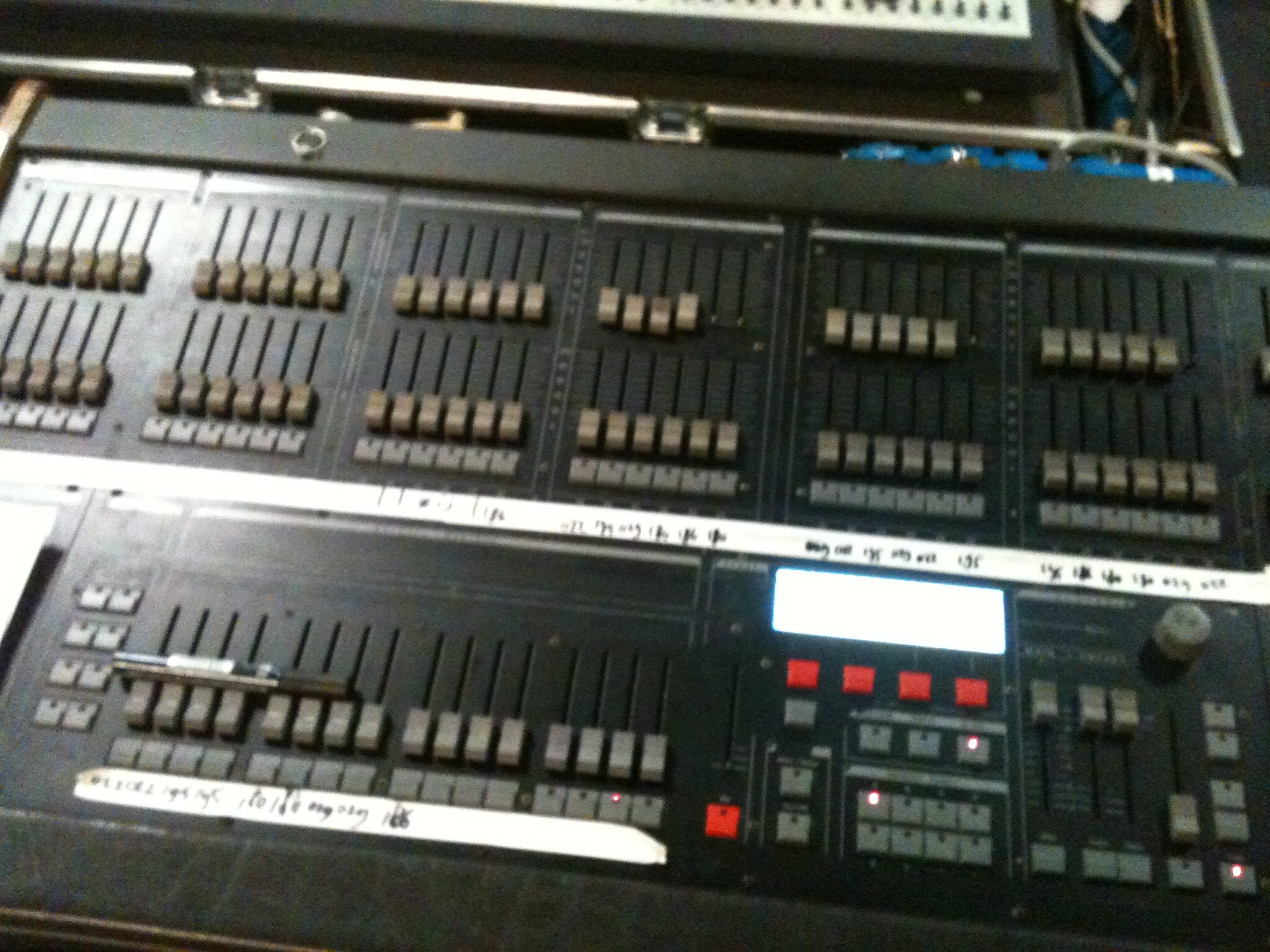 MA lighting desk type 48/6